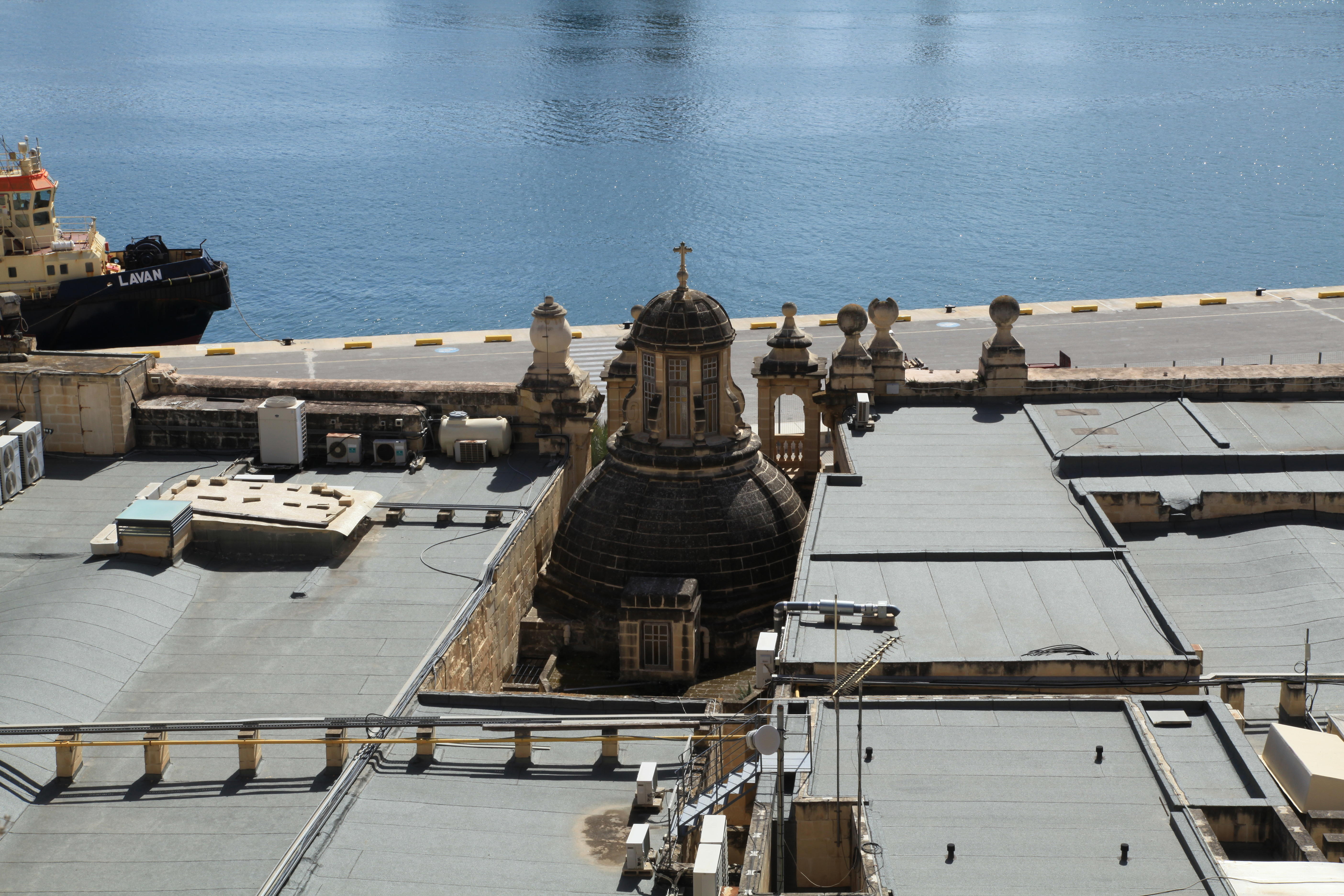 View from the Sir Luigi Preziosi Gardens to the Valletta Waterfront in Floriana, Malta